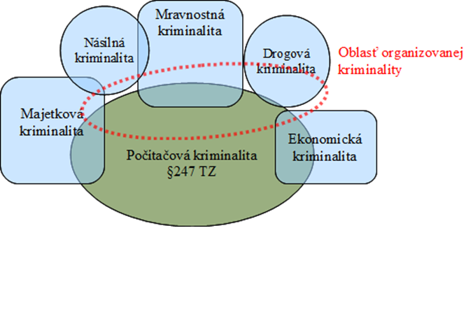 Figure of criminality